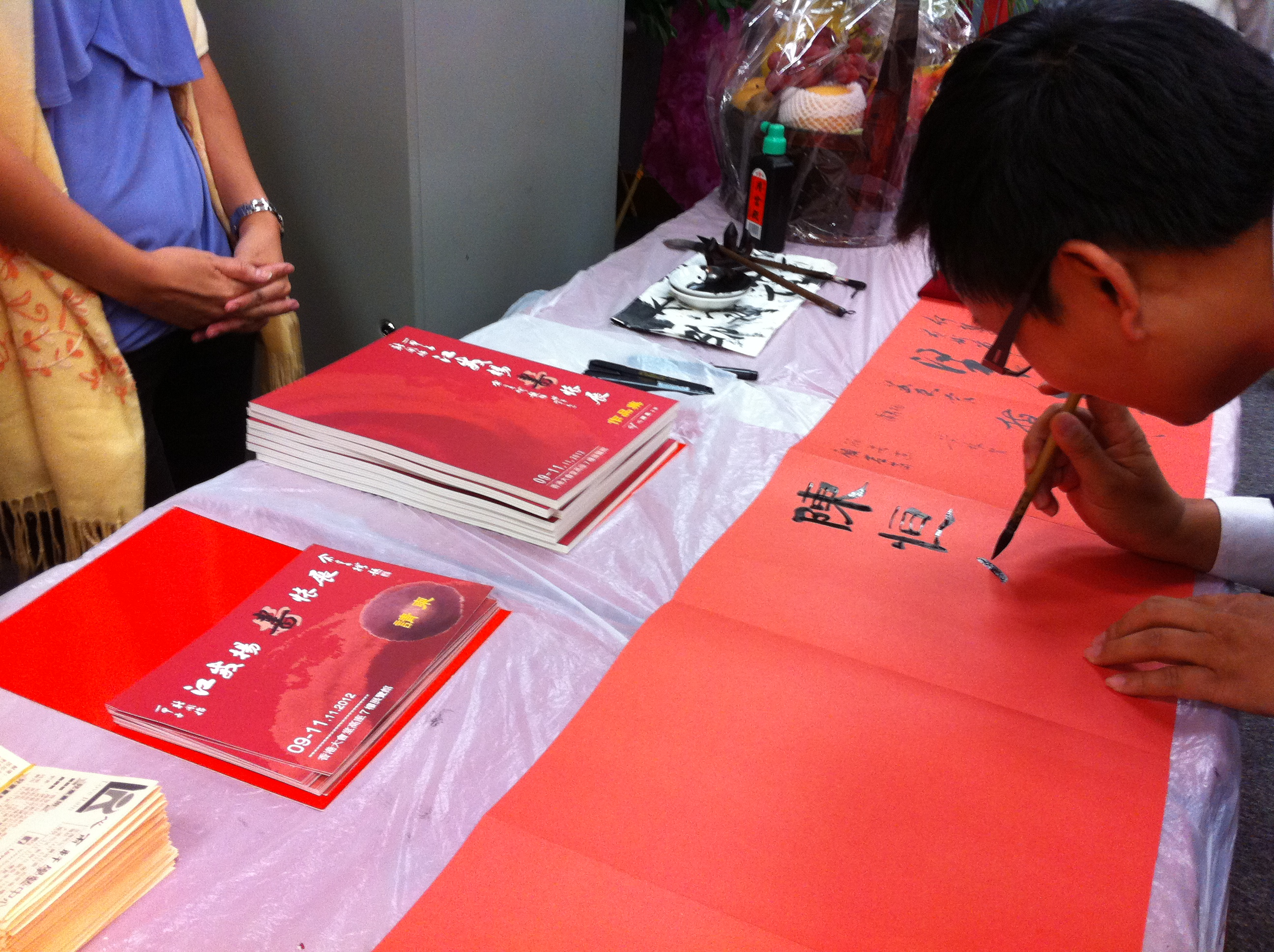 香港大會堂展覽館,陳恆鑌, Ben Chan Han-pan, Exhibition Hall, 8th Floor, City Hall, Edinburgh Place, Central, Hong Kong